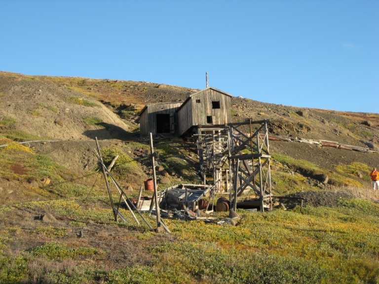 Old mining construction